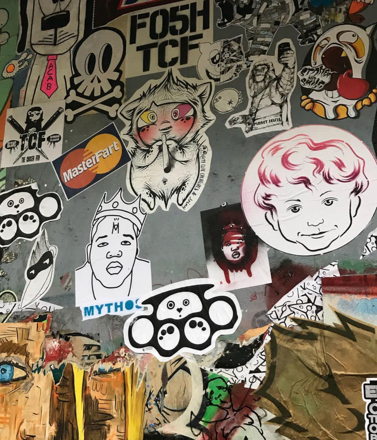 Paste ups by different local and international artists in Berlin Friedrichshain, near Boxhagener Platz on the wall of the old cinema Kino Intimes. The area is one of the Berlin streeart hotspots.